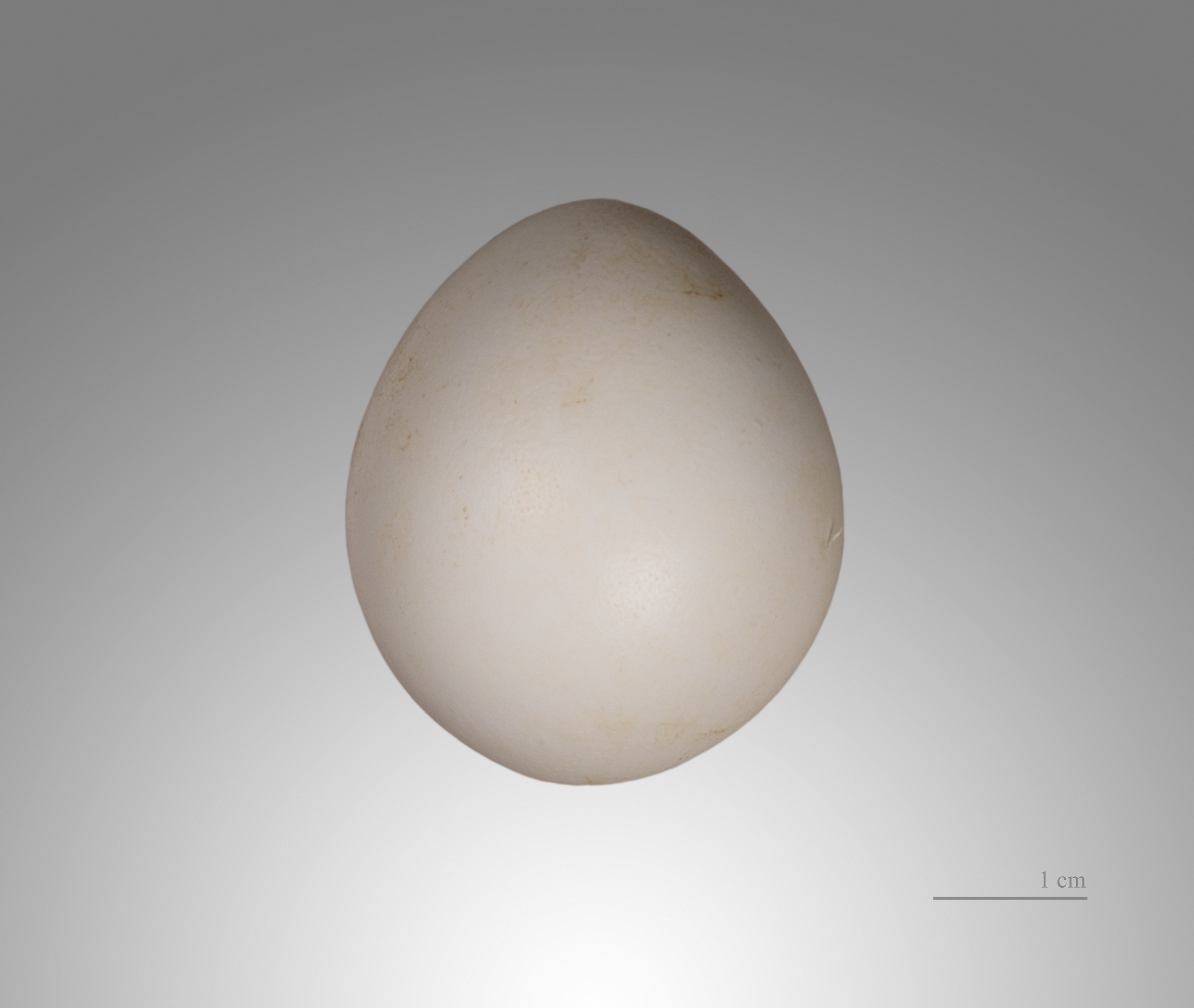 Egg of Crested Partridge. Collection Jacques Perrin de Brichambaut.